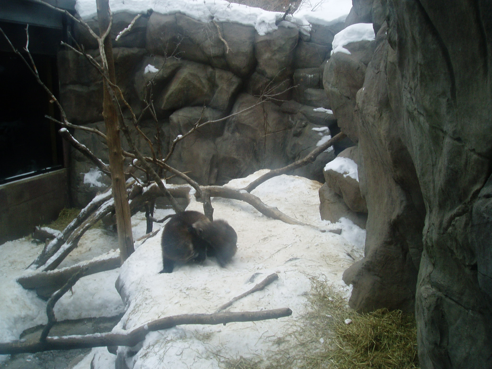 Wolverines at the Minnesota Zoo, in the Minnesota Trail section